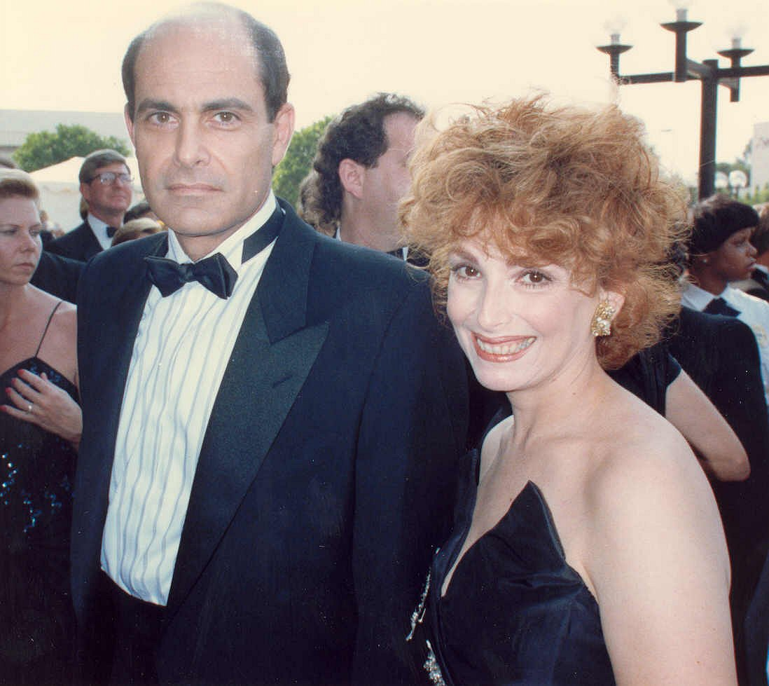 Alan Rachins and wife Joanna Frank on the red carpet at the 40th Annual Primetime Emmy Awards, 8/28/88 - Permission granted to copy, publish, broadcast or post but please credit "photo by Alan Light" if you can